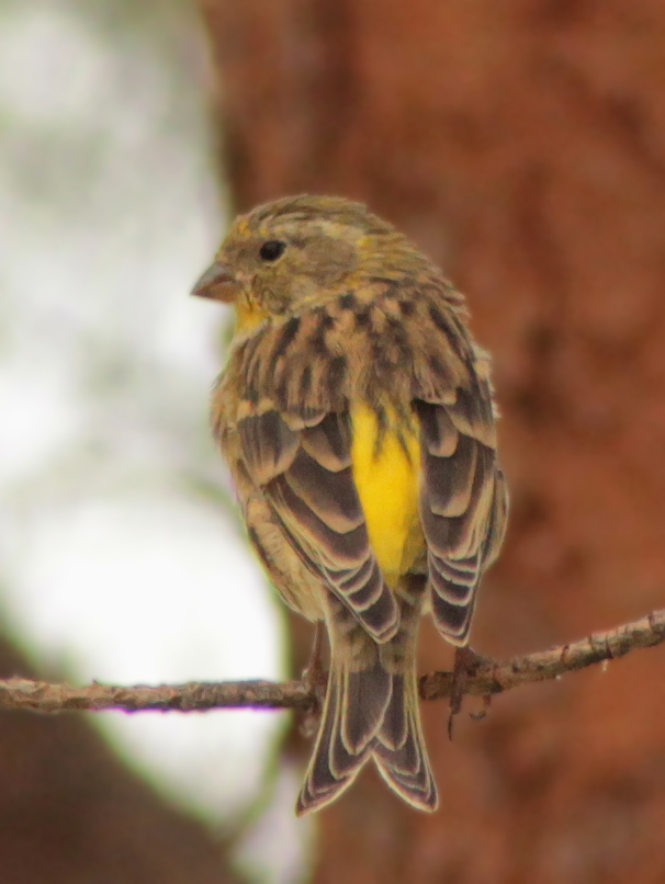 A female European Serin (Serinus serinus) in Madrid (Spain).